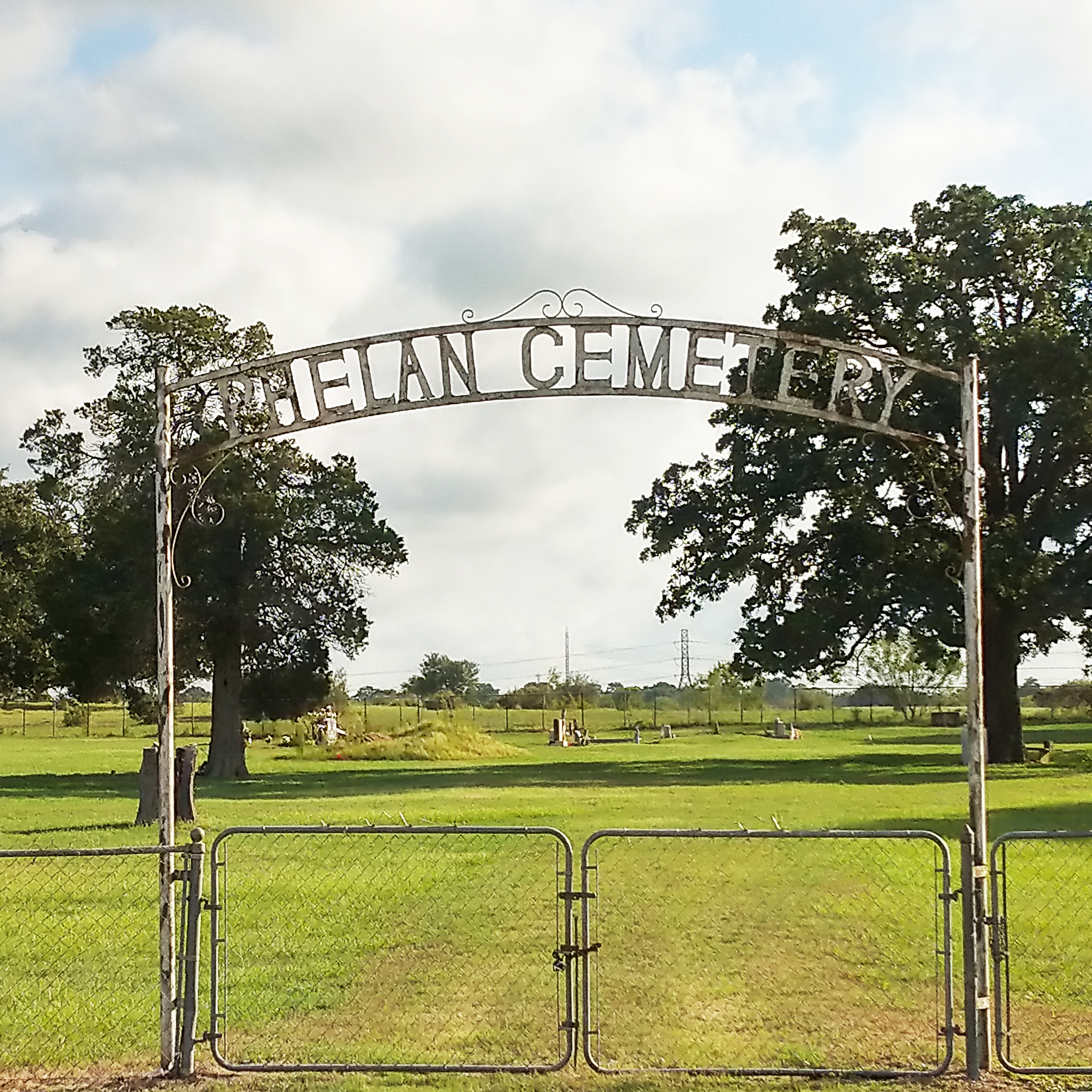 This graveyard served the lignite mining community of the vanished town of Phelan, Texas.